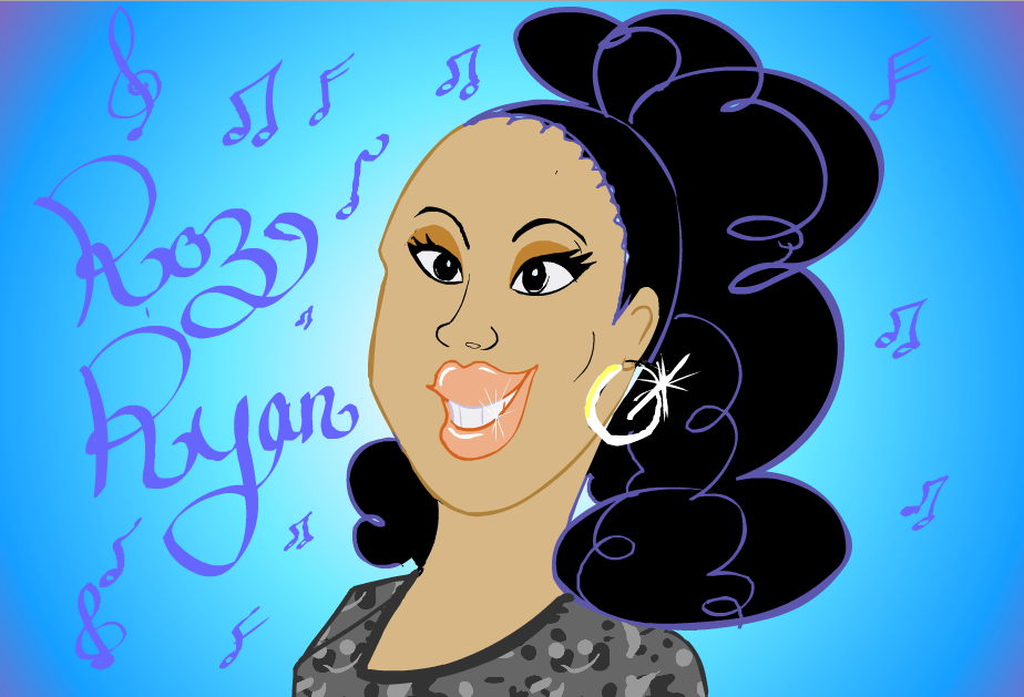 Roz Ryan the singer, actress and lots of other things